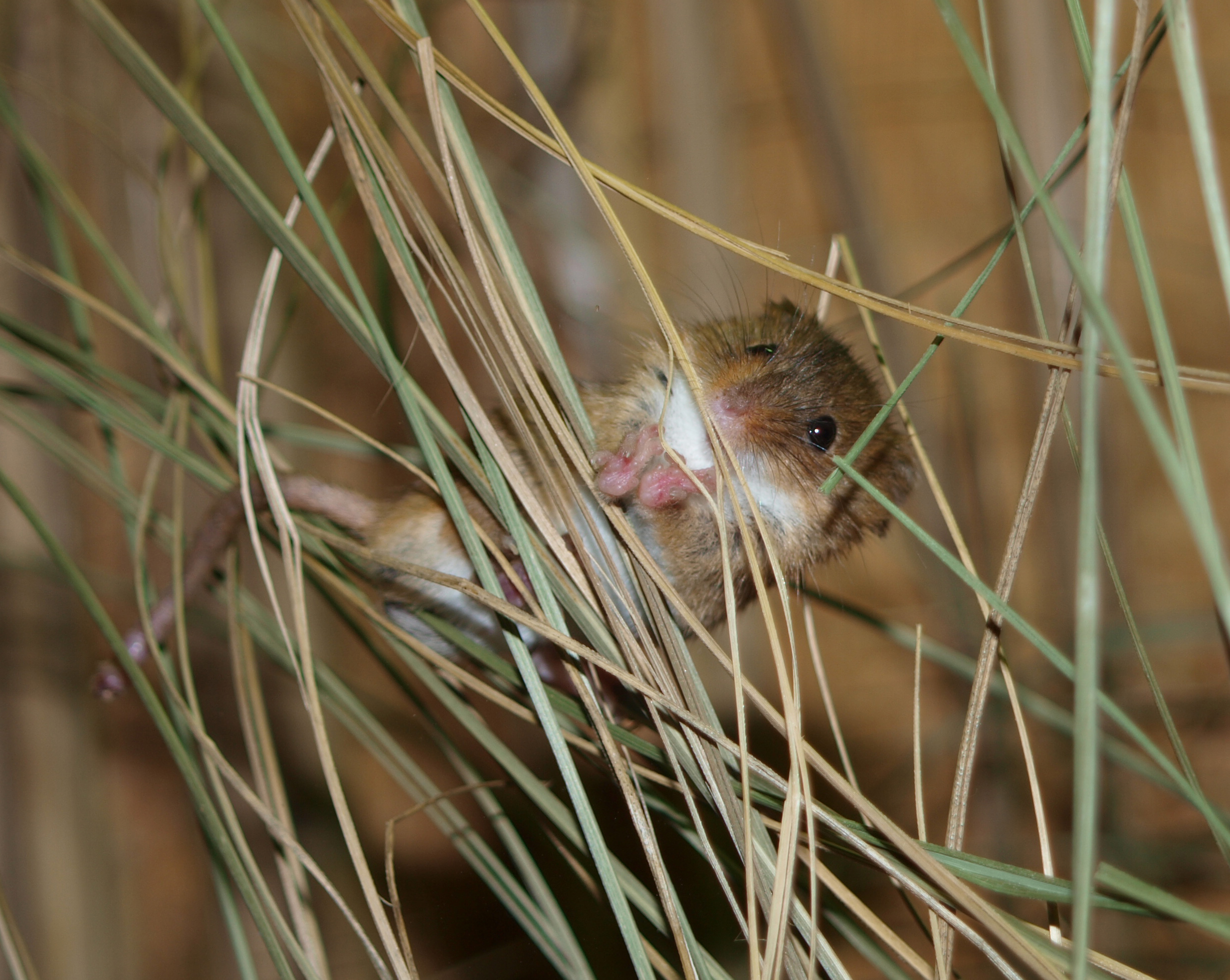 Harvest mouse climbs